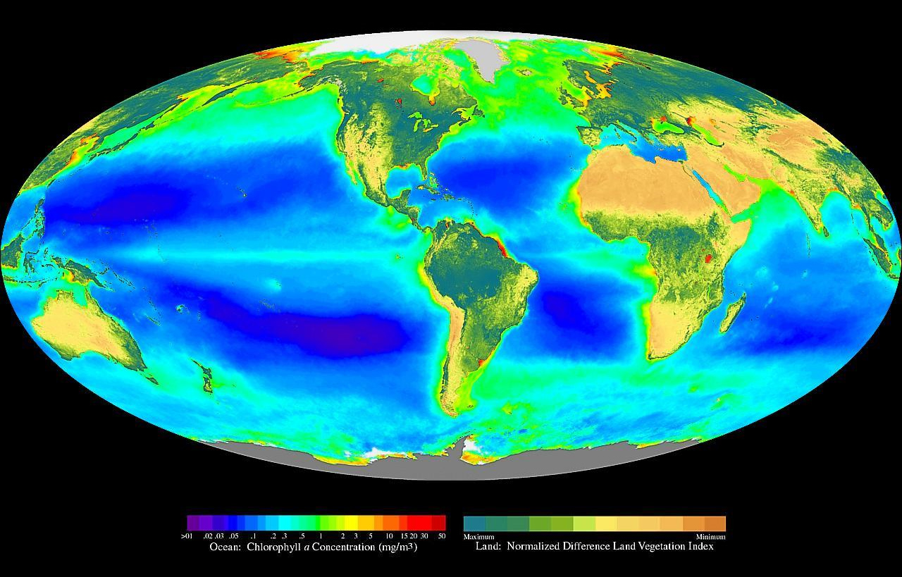 SeaWiFS Global Biosphere September 1997 - August 1998; This composite image gives an indication of the magnitude and distribution of global primary production, of both oceanic (mg/m3 chlorophyll a) and terrestrial (normalized difference land vegetation index), see Normalized Difference Vegetation Index (NVDI).